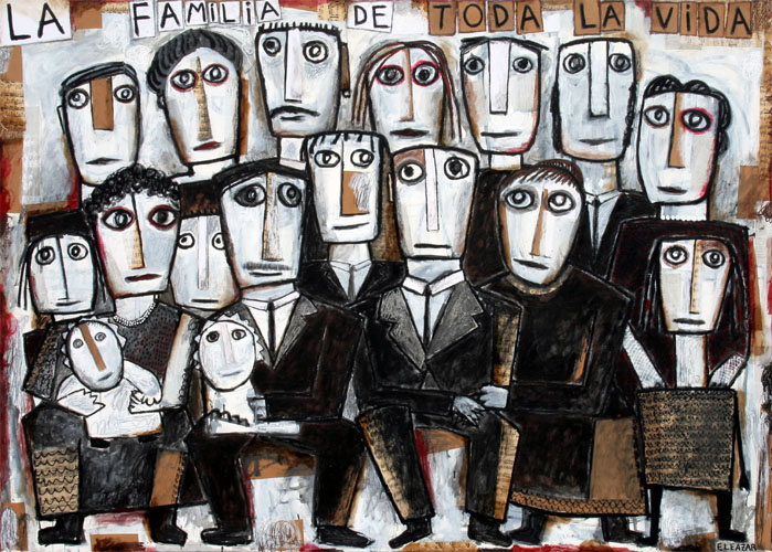 The Family